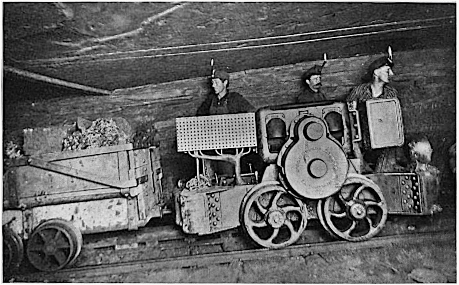 Original caption: "Fig. 8 -- Goodman 80-h.p. Rack Rail Locomotive Pulling 25-ton Trip Up 16 Per Cent Grade -- No. 11 Mine." This mine was located north of Marysville, Iowa and west of Bussey, Iowa. The locomotive uses the Morgan Rack combined third-rail and rack-traction system, and runs on 250-volt DC power at 80 horsepower on 36-inch gauge track. The man on the right is driving the locomotive; the other two men are standing behind it. This photograph was widely used in later Goodman Manufacturing Company advertising and it was used as a stock photo in articles about their mining machines.